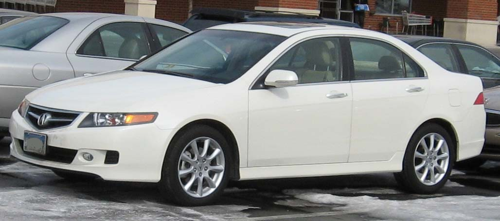 2006 Acura TSX photographed in USA.